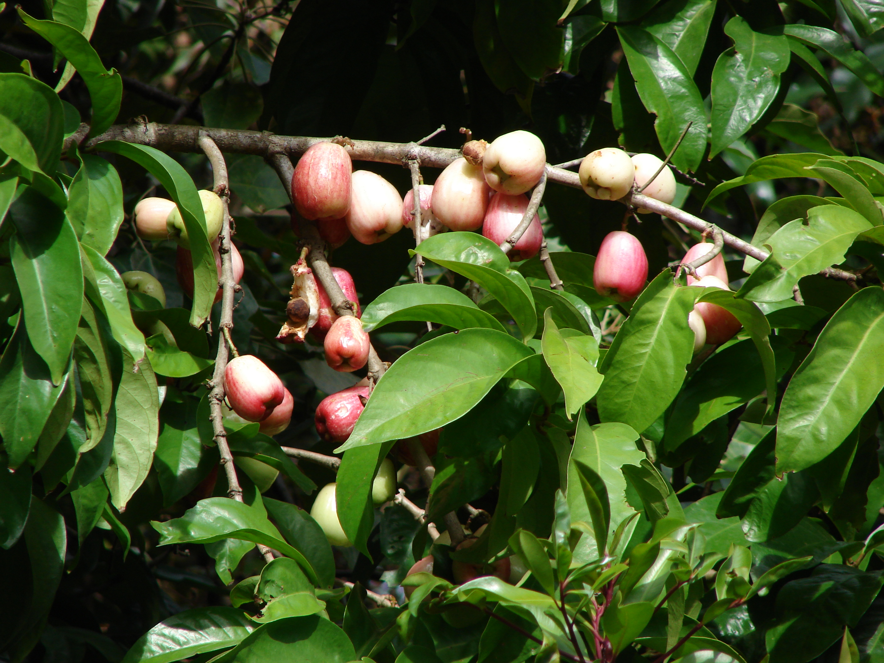 Syzygium malaccense (fruit and leaves). Location: Maui, Hana Hwy